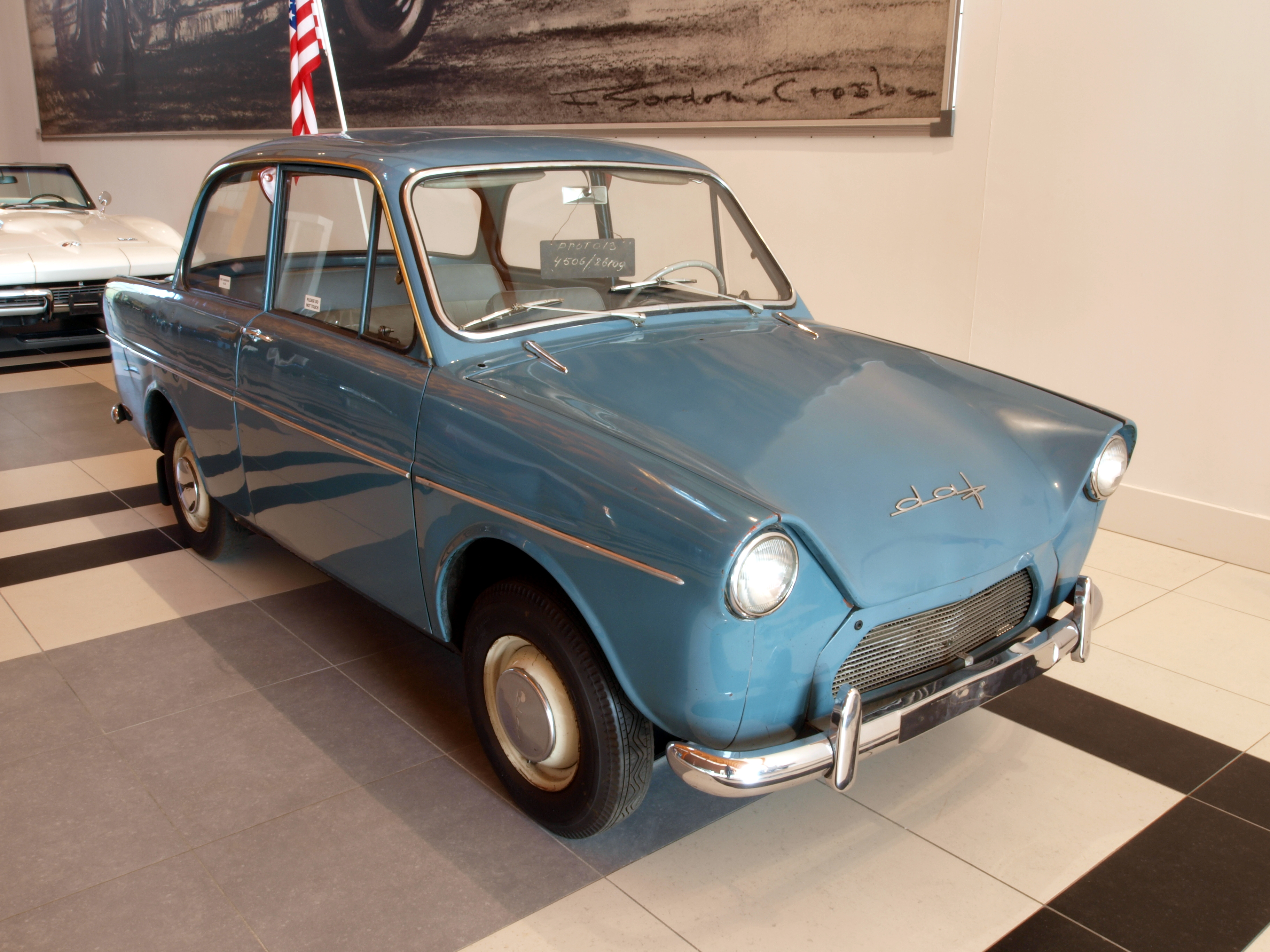 Photographed at the Louwman museum / Louwman Collection, The Netherlands.